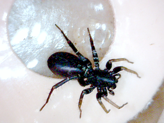 Castianeira sp, longipalpa or variata (female) photo made with Dino-Lite microscope that has an illumination system that accentuates the violet and UV end of the spectrum. Under sunlight this spider is brown. Spider collected indoors at 36° N 80° W. Body length is about 3/8" or 1 cm.